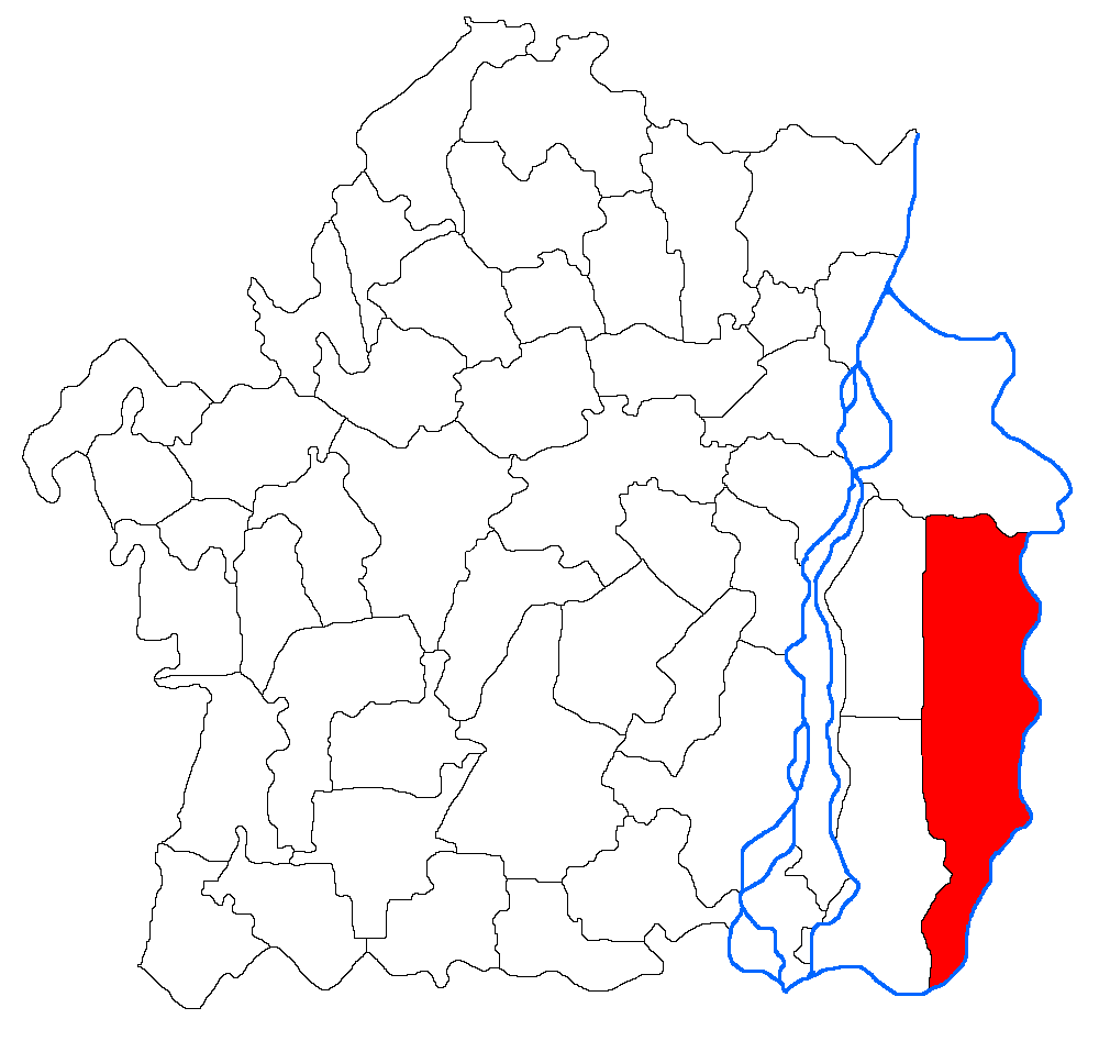 Limits of Commune of Frecatei in Braila County